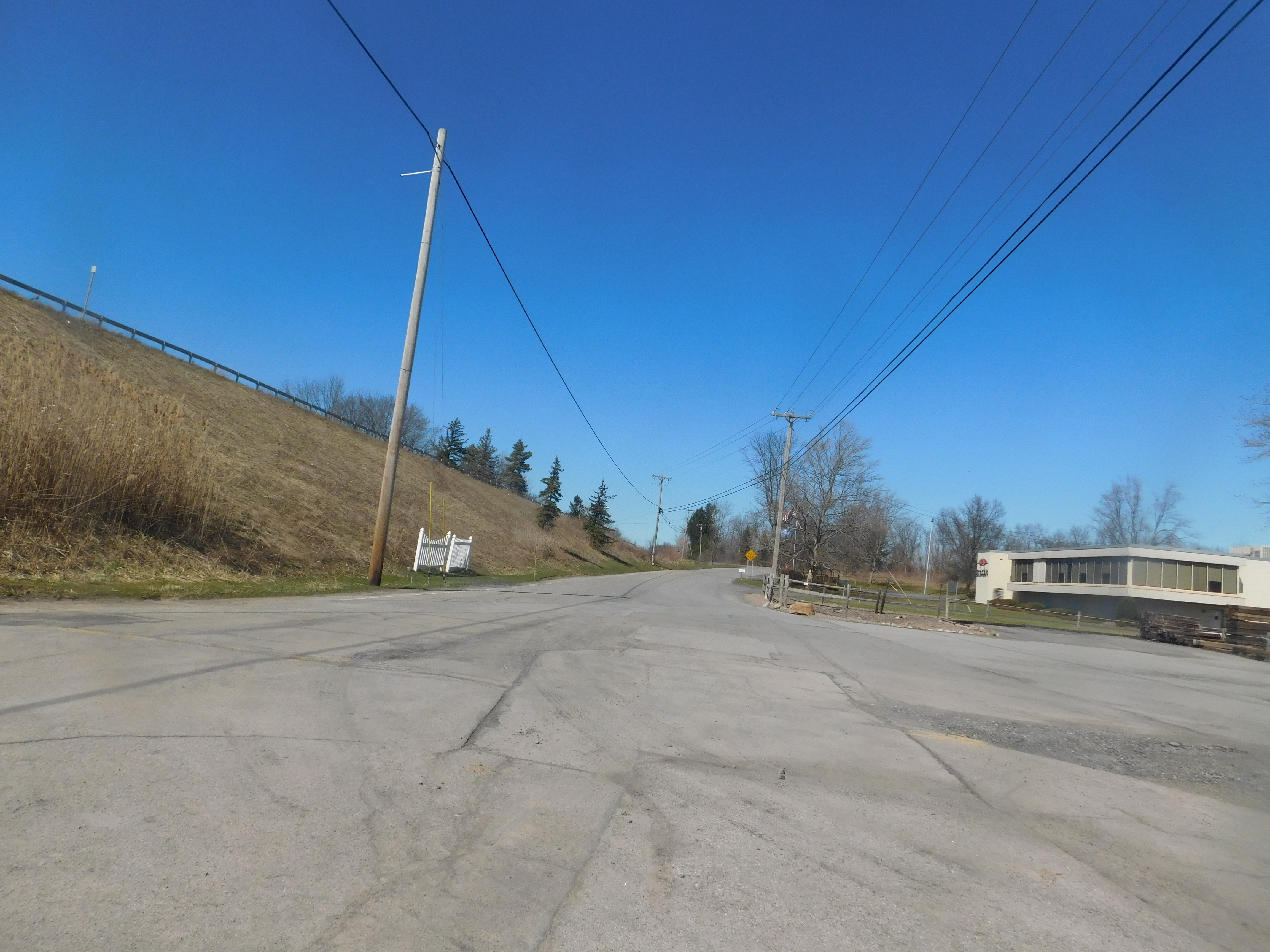 The former alignment of New York State Route 259 at the CSX railroad tracks in North Chili, New York.